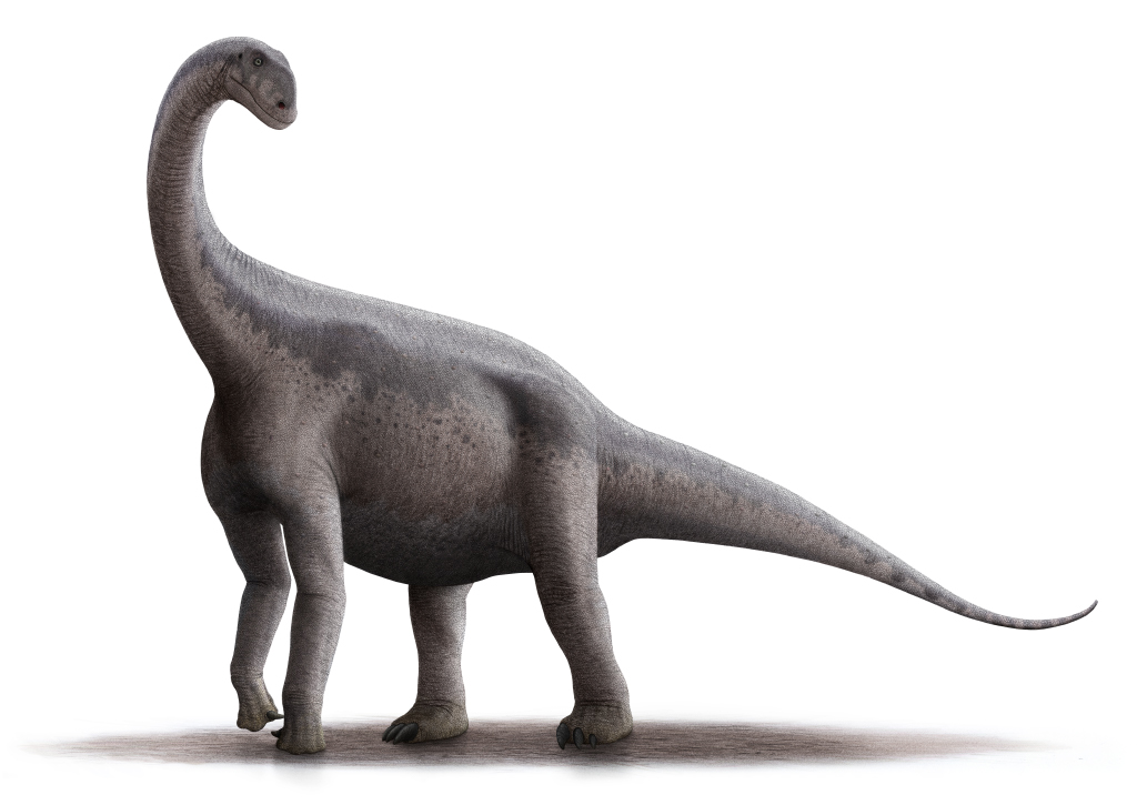 Jobaria tiguidensis restoration, • Based proportionally on a skeletal drawings and museum mounts. • The colours and/or patterns, as with nearly all reconstructions of prehistoric creatures, are speculative. NOTE: I often update my images. If you want to have any of my images on a website, please (if possible) don’t host/save it to the website server. I’d prefer it if the image's Wikimedia URL is used. This means that if I update an image, it will be updated on the site as well. Thanks.